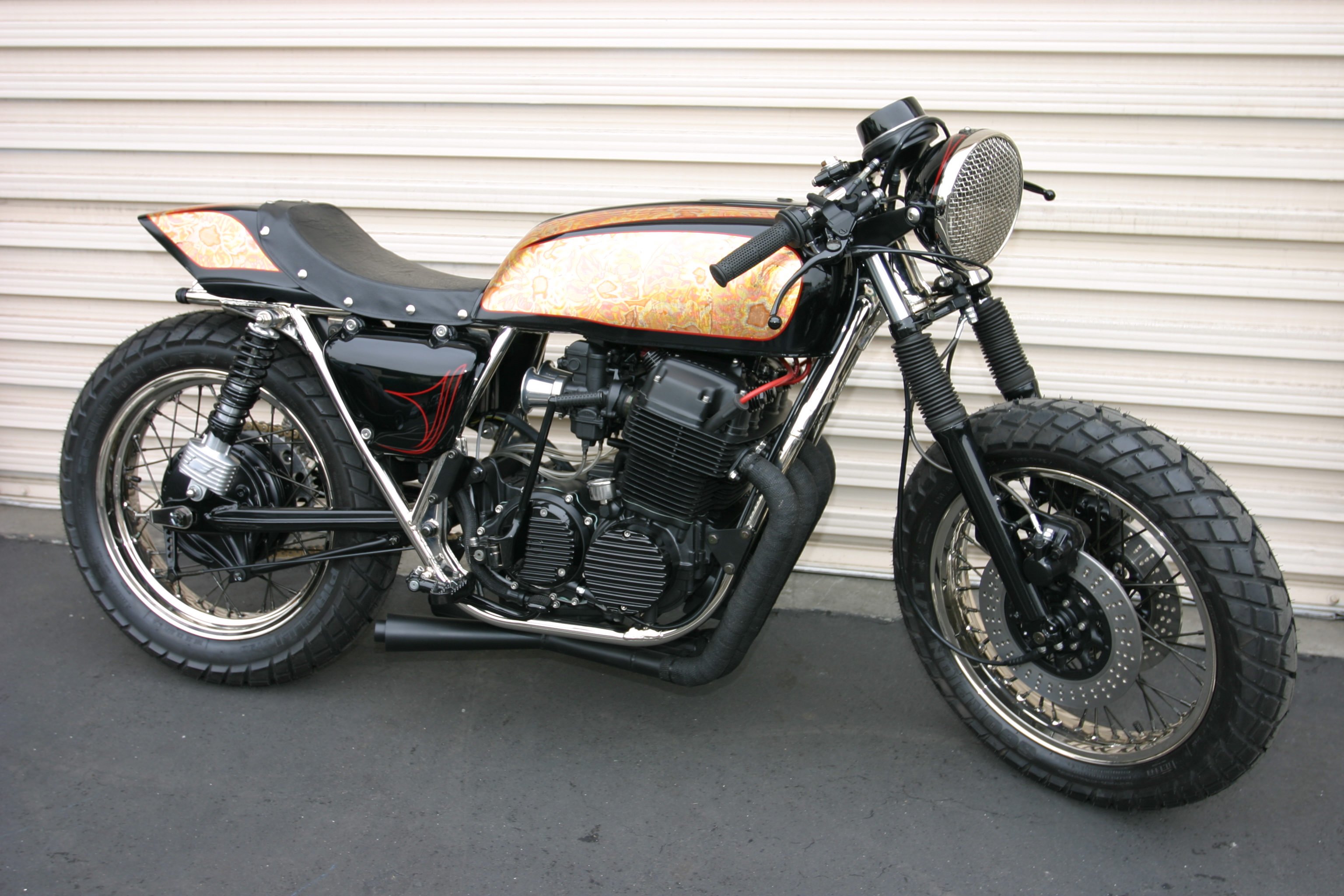 Classic 70's style Honda CB750 built by Lossa Engineering